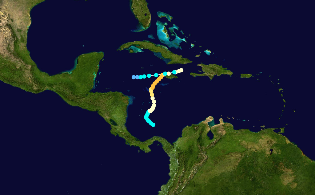 1912 Atlantic hurricane 7 track.png track. Uses the color scheme from the Saffir-Simpson Hurricane Scale.